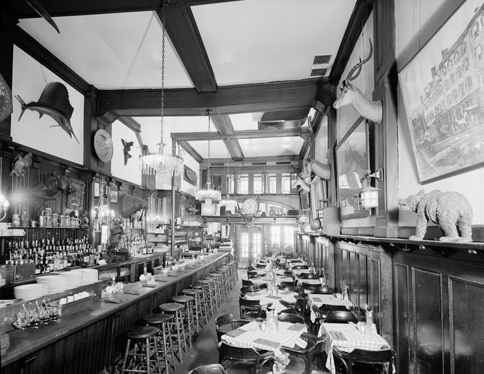 Looking south through Barroom on the first floor of the Old Ebbitt Grill located at 1427 F Street NW, Washington, D.C., United States. Old Ebbitt Grill was originally a restaurant which existed as part of the Ebbitt House hotel, which was established in 1856. The hotel was located on the southeast corner of F Street and 14th Street in Washington, D.C. The original hotel was razed in 1872, and a newer, much larger hotel with a greatly expanded and much more luxurious dining room built. The dining room was significantly renovated in 1910. Ebbitt House closed in 1925, and the restaurant's furnishings were purchased by Anders R. Lofstrand, Sr. (a local restauranteur and veteran bar owner). The "Old Ebbitt Grill" restaurant was moved to 1427 F Street NW. Lofstrand occupied all four floors of this existing building. The restaurant passed into the hands of the Clyde's Restaurant Group in 1970 after a tax auction. In 1977, the building was demolished to make way for the Metropolitan Square development. However, Old Ebbitt Grill re-established itself on the northwest corner of Metropolitan Square at 675 15th Street NW. It remains in existence as of 2012, and is the oldest bar and restaurant in the city.